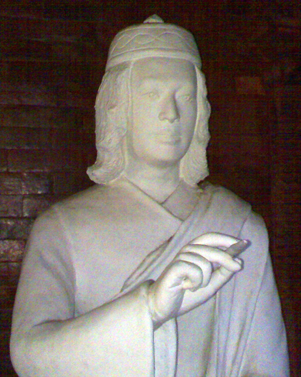 Statue of 13th century Nepalese architect Araniko who introduced the pagoda style to China.